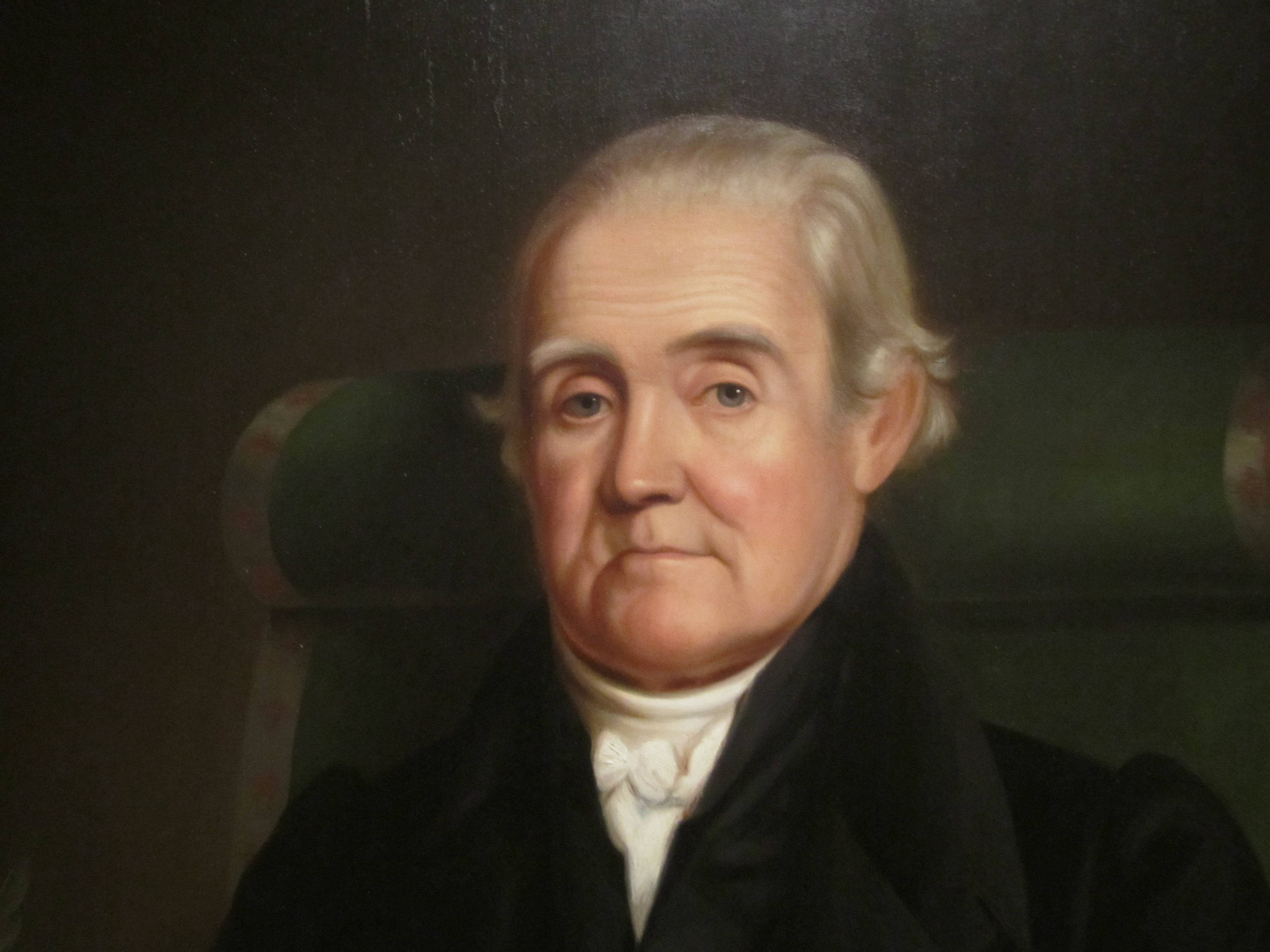 Detail of portrait of Noah Webster by James Herring. National Portrait Gallery, Washington, D.C.